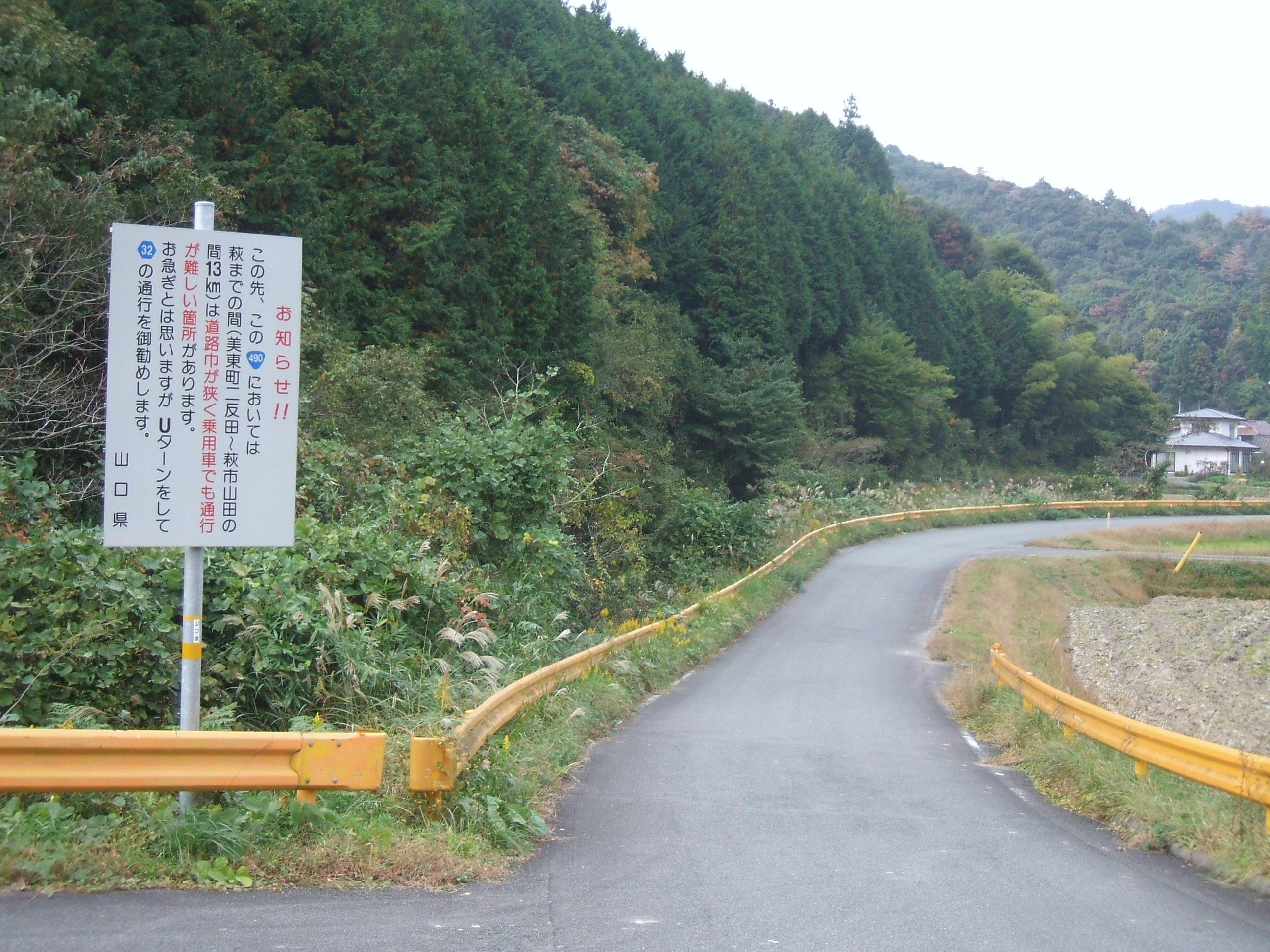 Route490(Yamaguchi,Japan)